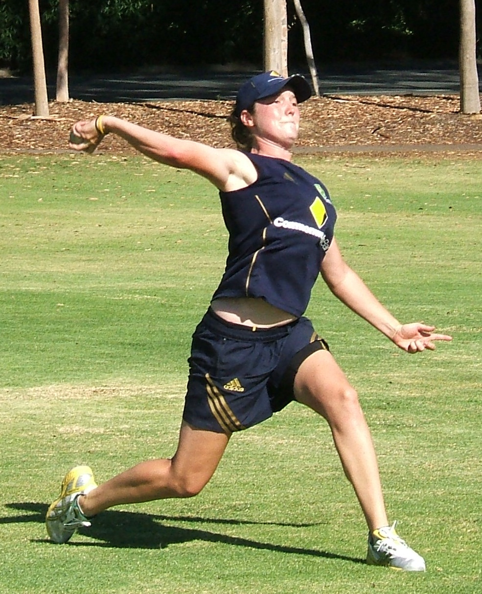 Named person engaging in named action at Adelaide Oval nets/training ground